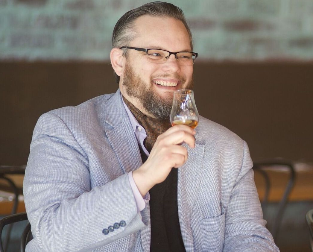 Fred Minnick tasting Bourbon